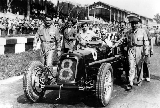 Entry #8 in the XII Gran Premio d'Italia (Italian GP) at Monza on September 9, 1934, was a Maserati 6C 34. This was this car's racing debug, so it may have been an early chassis number (3023 or 3024 perhaps)[1]. This 6C 34 was developed under Ernesto Maseratis direction to meet new racing class regulations (max 750 kg) and had a smaller and lighter 6-cylinder engine than 8CM.[2] It was driven by Tazio Nuvolari (at the wheel) and ended in 5th place even if the brakes failed (he used the gear to brake). Maserati mechanic Luigi Parenti is also seen (left)